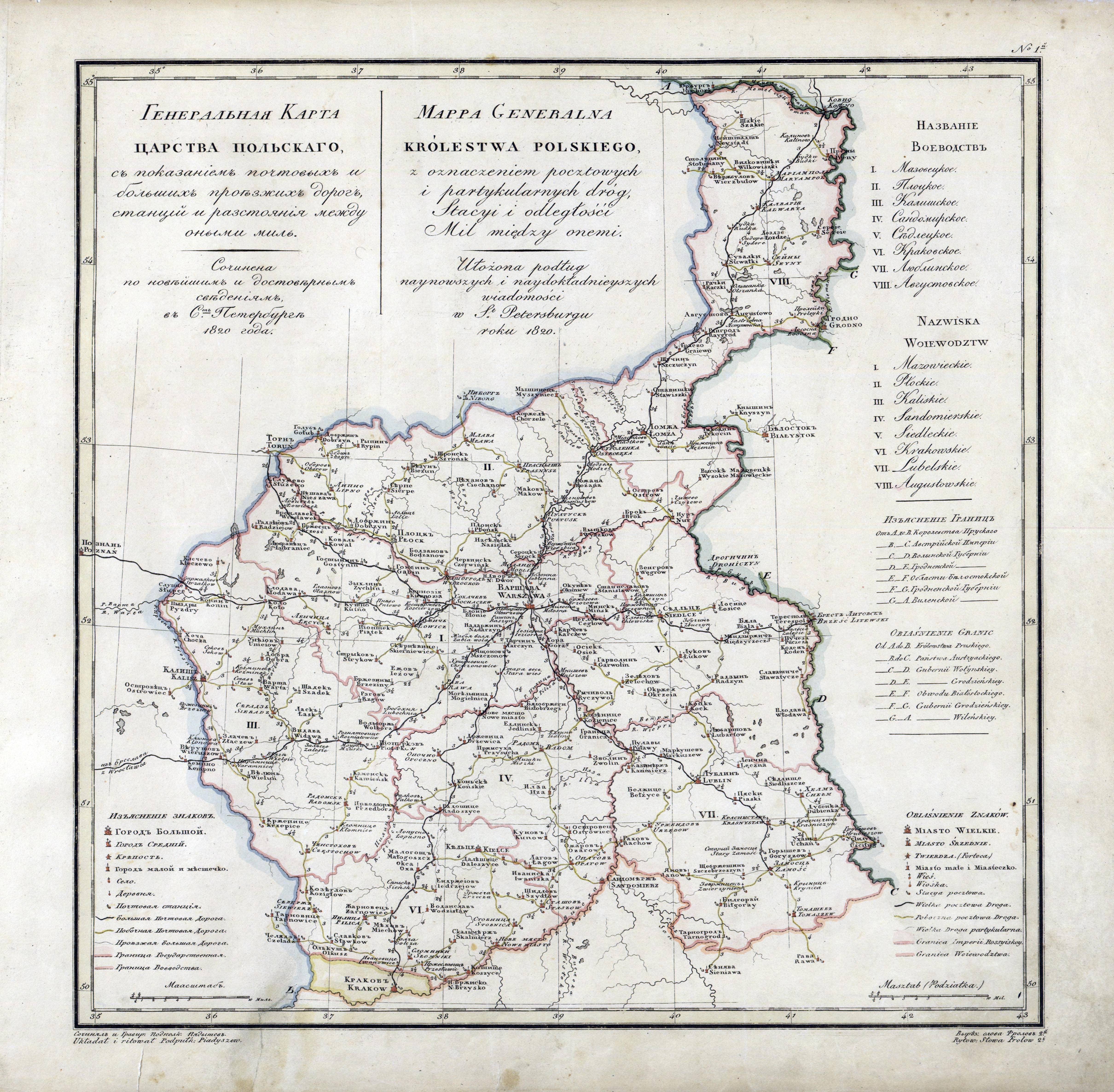 Geographic atlas of the Russian Empire, Kingdom of Poland and Grand Duchy of Finland is located in governorates in the Russian and French. Kingdom of Poland. 1821.